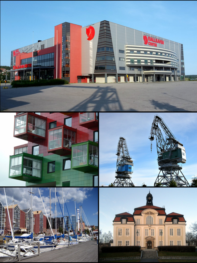 Montage of Örnsköldsvik. At the top you can see Fjällräven Center, followed by the building Ting1, The port gantries, the guest harbour and the old city hall.